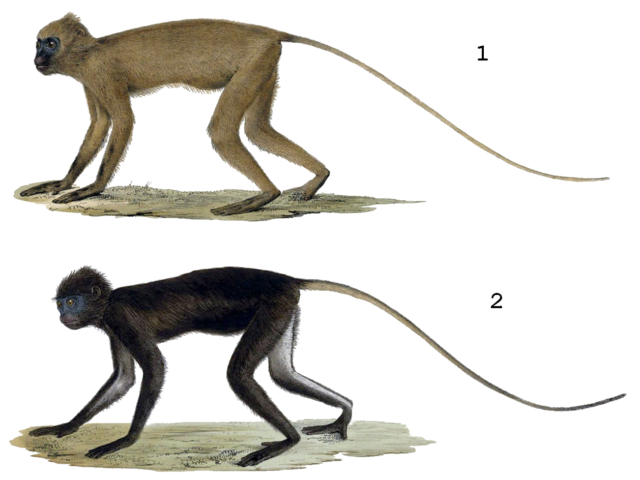 Presbytis chrysomelas. 1 - female, 2 - male.